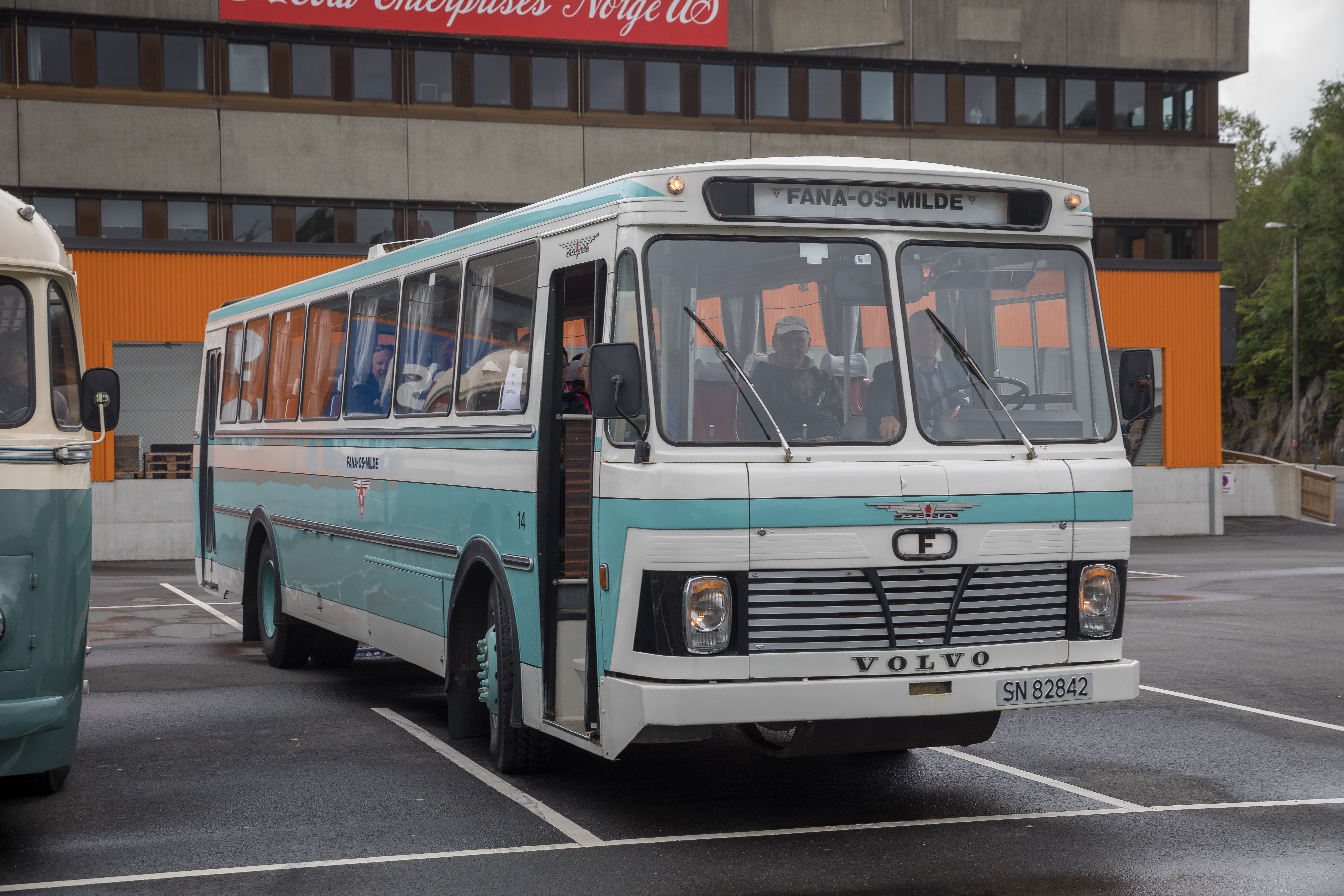 Vintage vehicles at Fjordsteam 2018. The maritime heritage festival took place between August 2 and August 5 2018 in Bergen, Norway.